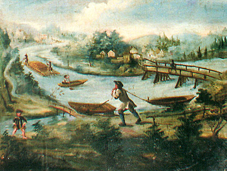 Late 18th- century educational picture board from the school of Zlatá Koruna (near Český Krumlov). Water transport (boats, rafts).